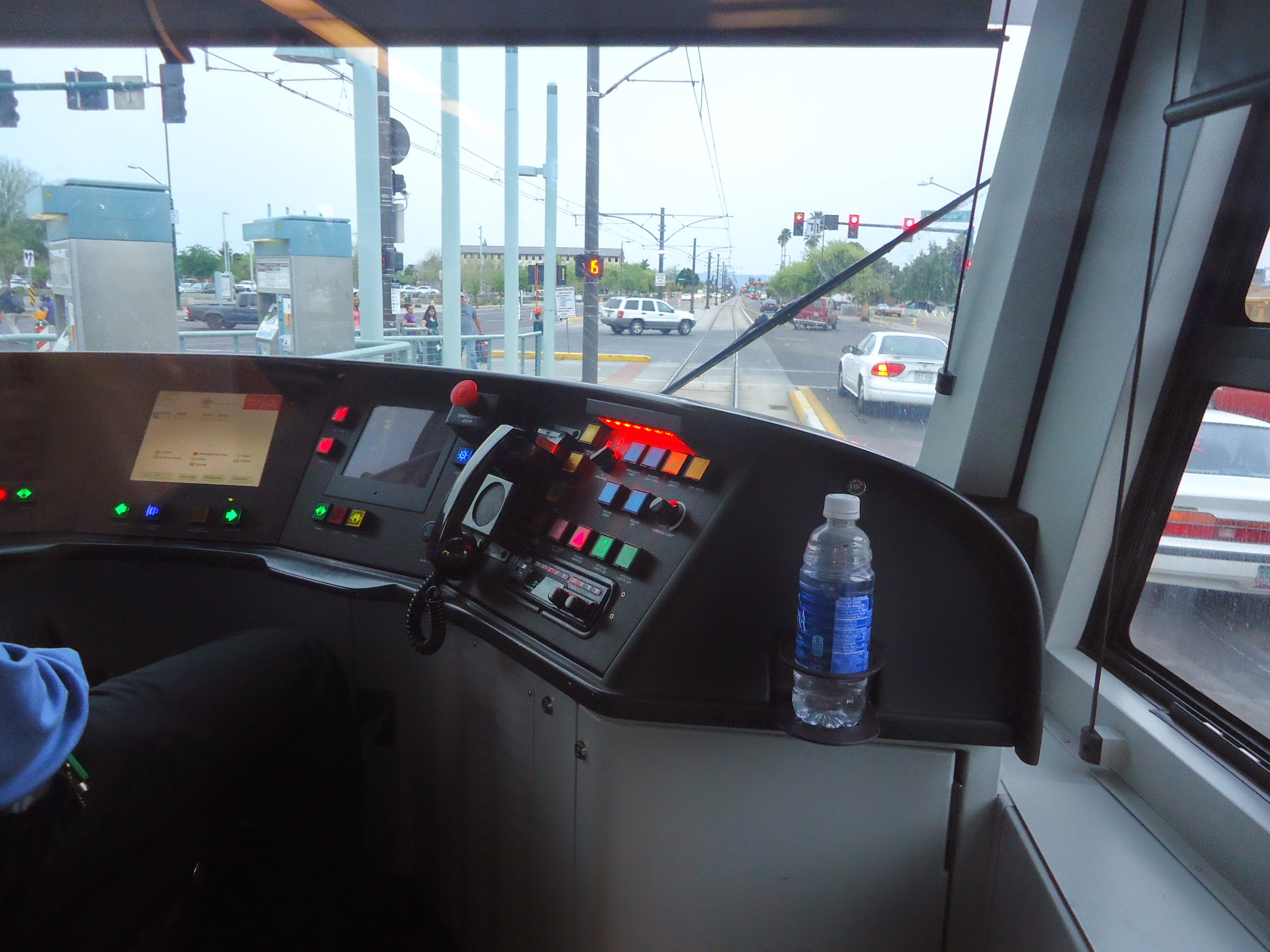 View showing cab and driver of Valley Metro light rail train car in Phoenix, Arizona.